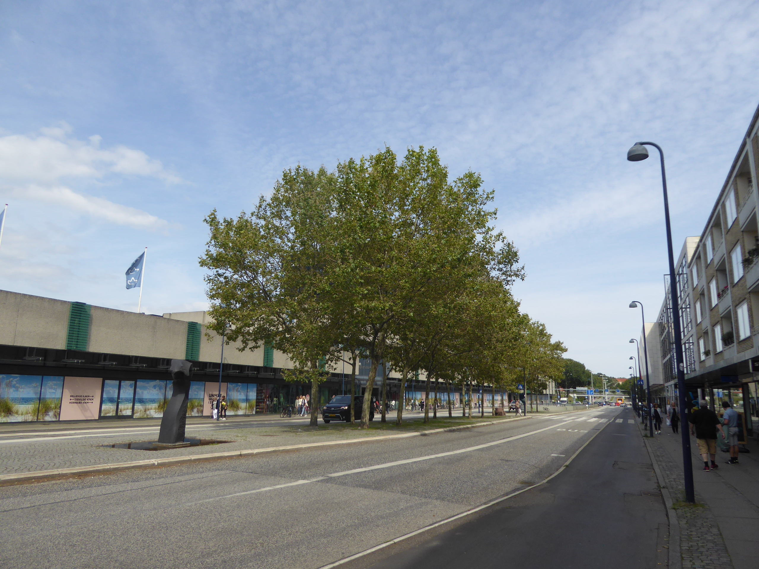 The street Klampenborgvej at Lyngby Storcenter in Copenhagen. When Hovedstadens Letbane opens in 2025 it will have a station here.